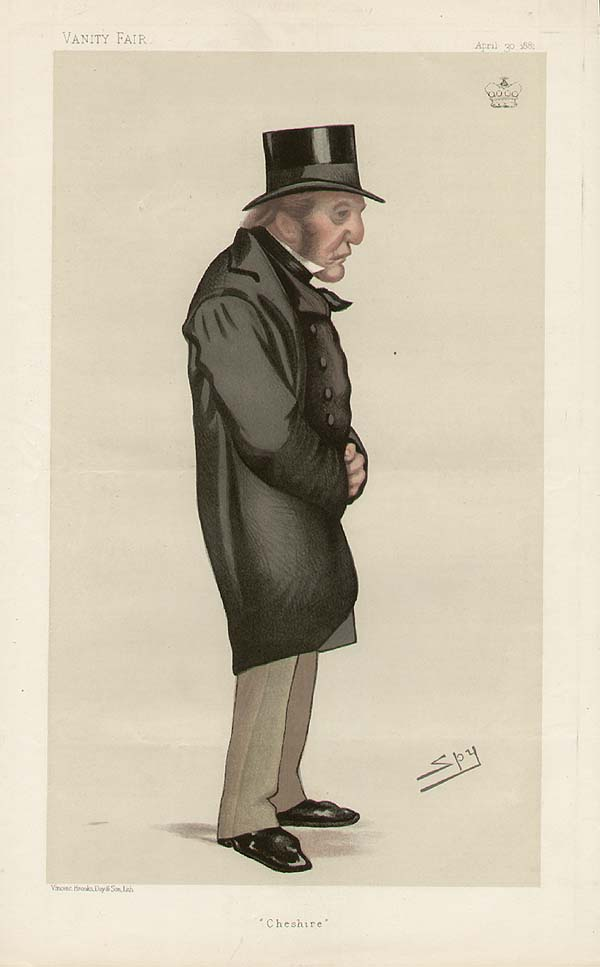 Caricature of Lord Tollemache. Caption read "Cheshire".